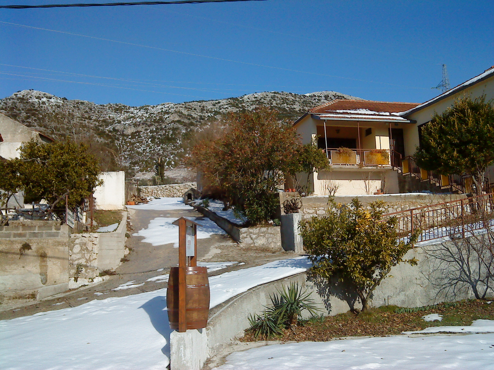 Ponikve